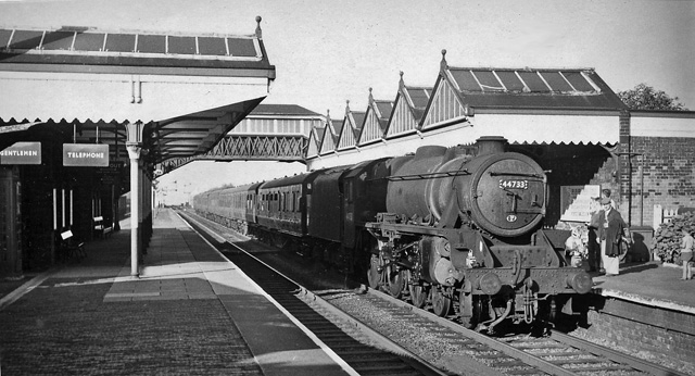 Burscough Junction Station, with train. View NE, towards Preston, Blackburn etc.; ex-Lancashire & Yorkshire, Liverpool (Exchange) - Preston, Blackburn etc. main line, junction with Manchester - Wigan - Southport line. Passenger services over the south-west loop with the Southport line ceased from 5/3/62, goods traffic over the west-north loop in 6/69; both loops were probably taken up by 6/82. The train is the 15.15 Windermere to Liverpool (Exchange), headed by the (?inevitable) LMS Class 5 4-6-0 (post-war variety)